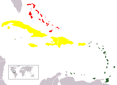 Major island groups of the Caribbean: the Bahamas (red), Greater Antilles (yellow), and Lesser Antilles (green). The Cayman Islands, despite their small size, are not typically considered a part of any of these groups and are colored brown.